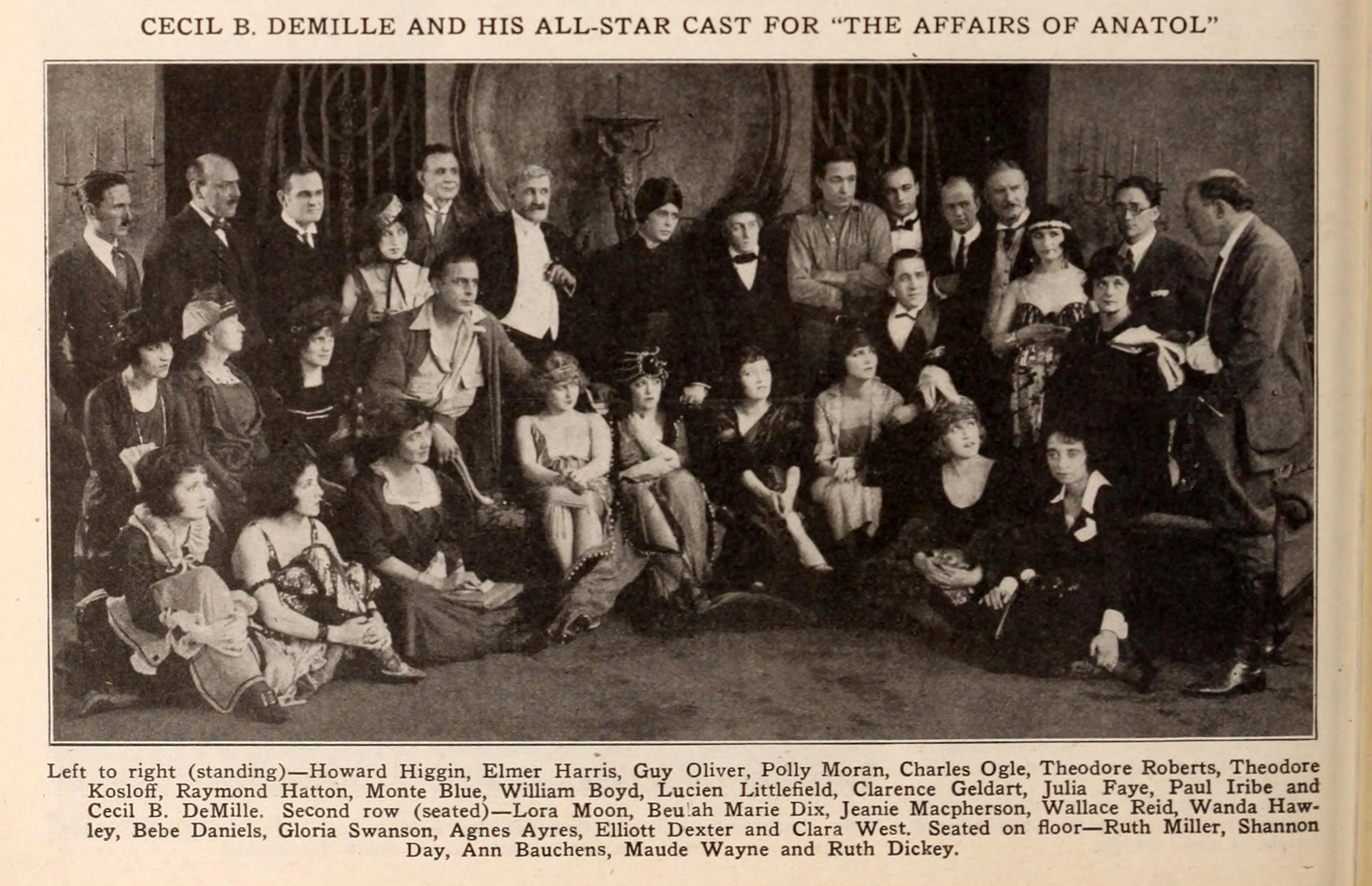 From page 62 of the April 9, 1921 Exhibitor's Herald. Still of the cast and production crew from the American comedy drama film The Affairs of Anatol (1921), from the left, with production manager Howard Higgin, literary assistant Elmer Harris, Guy Oliver, Polly Moran, Charles Ogle, Theodore Roberts, Theodore Kosloff, Raymond Hatton, Monte Blue, William Boyd, Lucien Littlefield, Clarence Geldart (who is not listed in the cast by the IMDB), Julia Faye, art director / costume designer Paul Iribe, and director Cecil B. DeMille; second row (seated) Lora Moon (not listed in IMDB), literary assistant Beulah Marie Dix, screenwriter Jeanie Macpherson, Wallace Reid, Wanda Hawley, Bebe Daniels, Gloria Swanson, Agnes Ayres, Elliott Dexter, and costume designer Clare West; front row (on floor) Ruth Miller (1903 – 1981), Shannon Day, film editor Anne Bauchens, Maude Wayne, and Ruth Dickey (not listed in the IMDB).